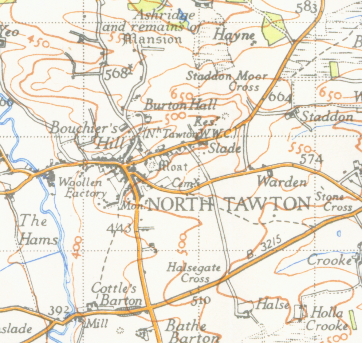 Map of Tavistock from 1946. Scale 1 inch to the mile 600DPI Sheet 175